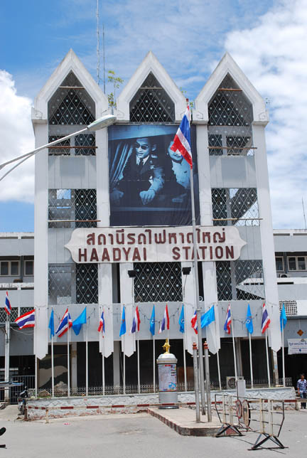 Hat Yai Rail Station is the southernmost Major Rail 'Hub', Depot, and Junction on Thai Railways Southern Line for both passenger and Freight trains. Famous routes --From Hat Yai to Butterworth, Malaysia and Hat Yai to Bangkok.